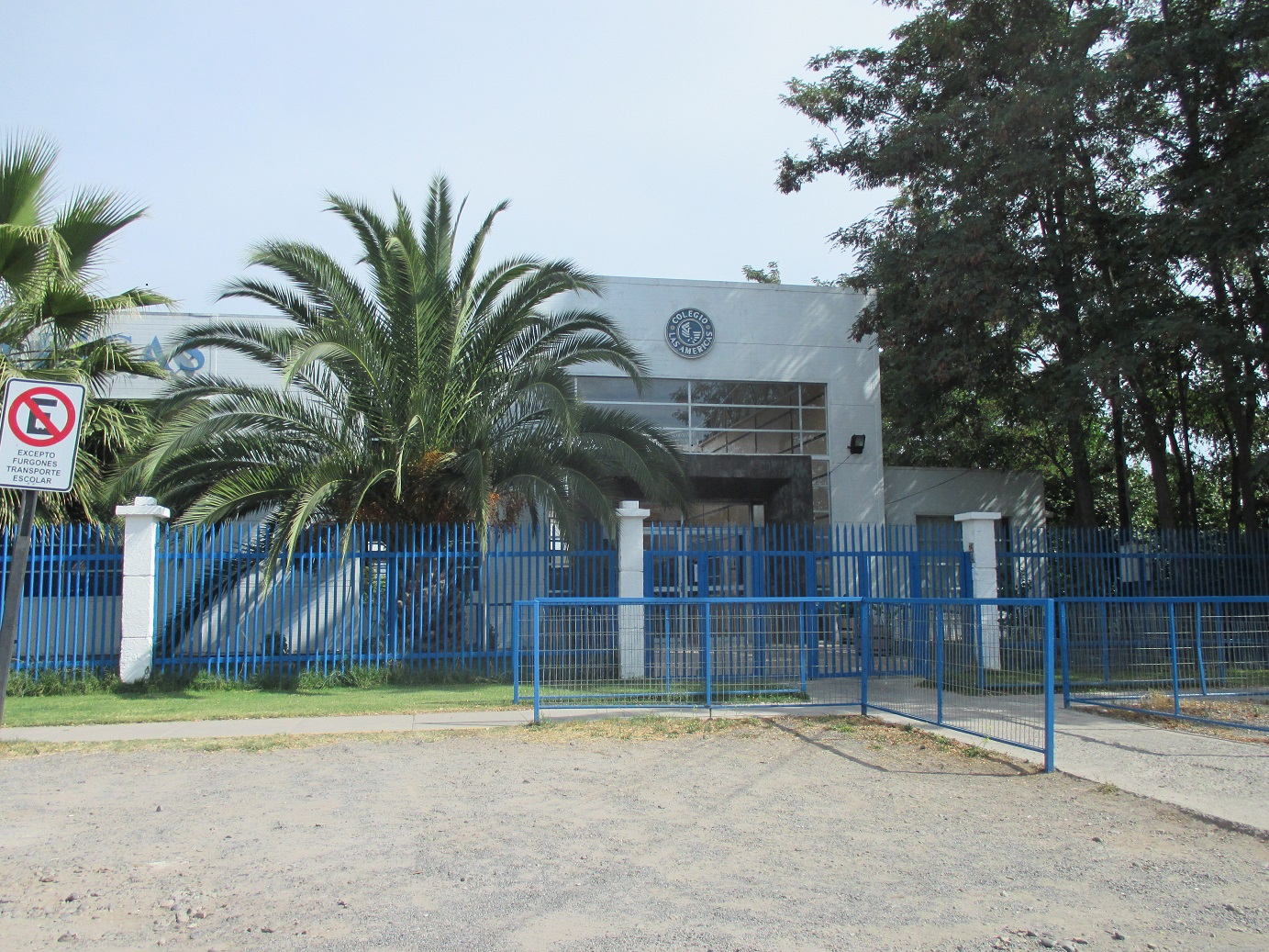 Highschool Las Americas Paine, Chile